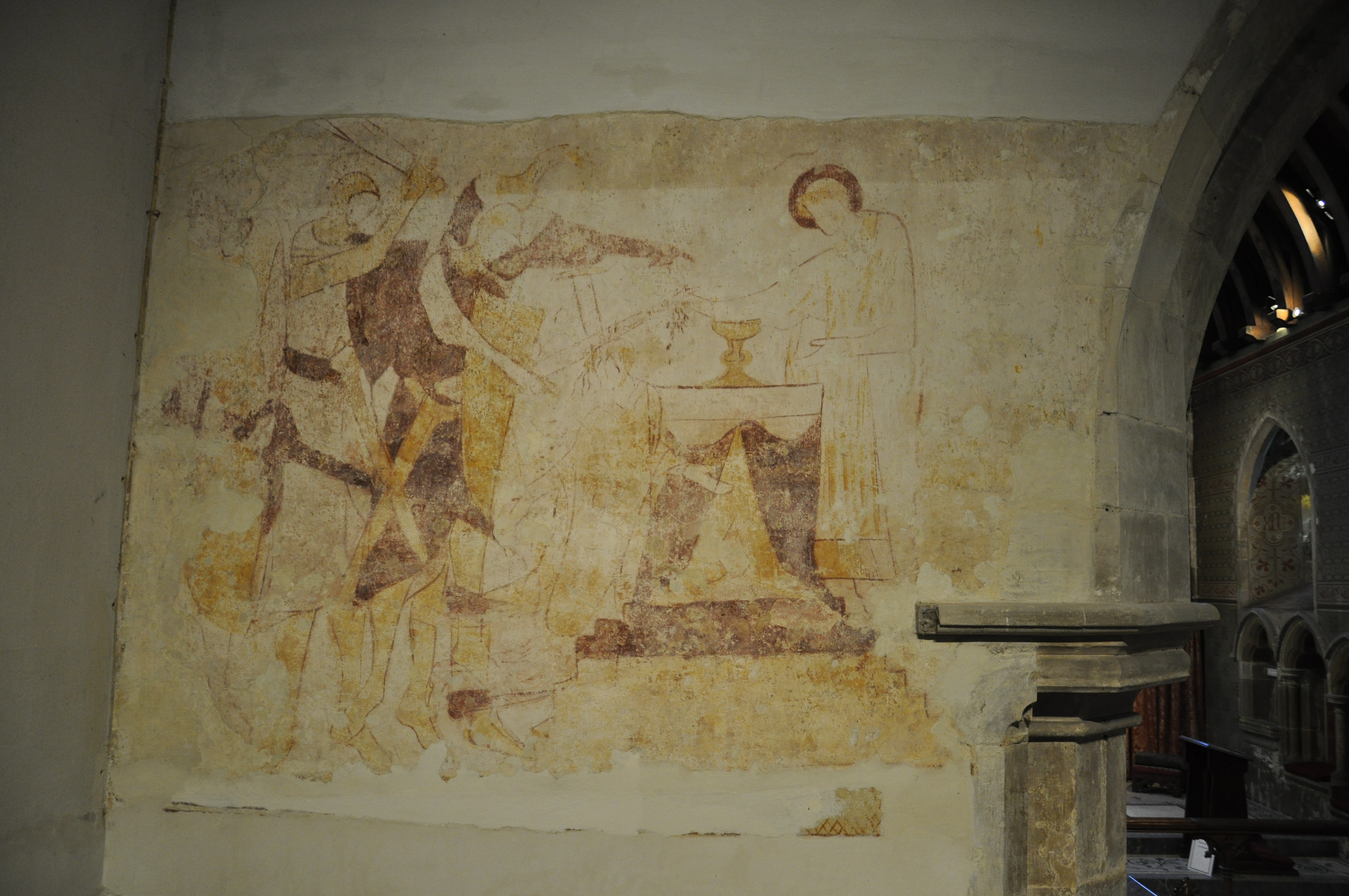 13th century wall paintings showing the martyrdom of Thomas Beckett. West side of the knave.